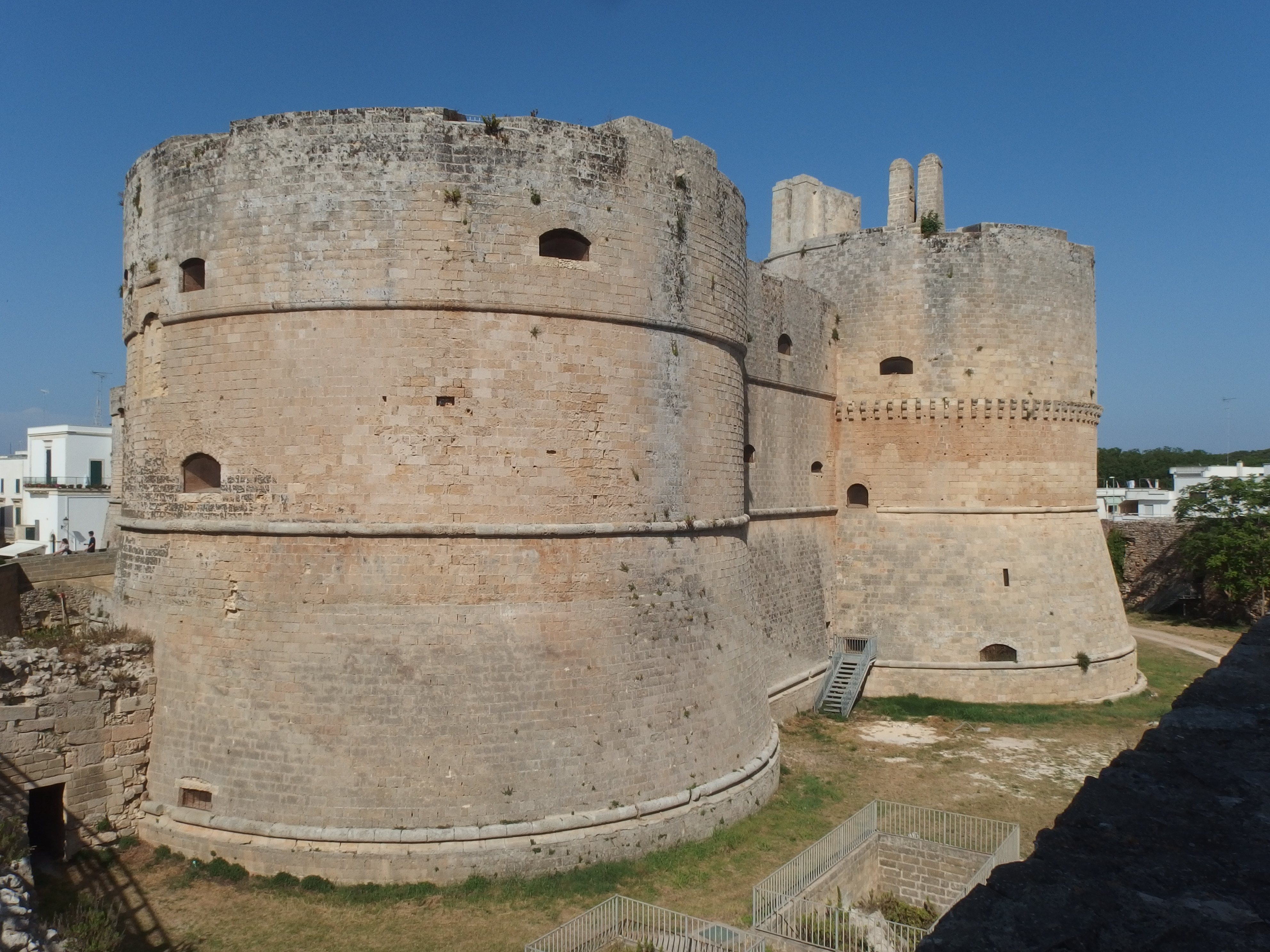 Otranto, Apulia, Italy. Castle.